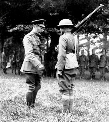 Pvt. Harry Shelley, Co A, US 132nd Infantry, 33rd Division receiving British Distinguished Conduct Medal from King George V